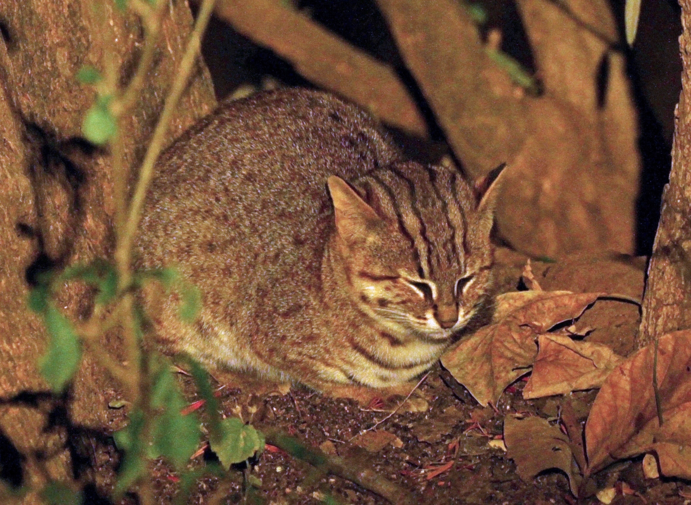 Rusty spotted cat photographed by David V. Raju